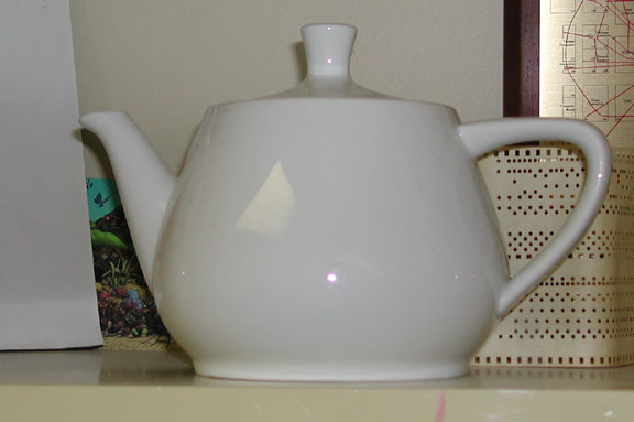 The teapot in the Boston Computer Museum in 1989.